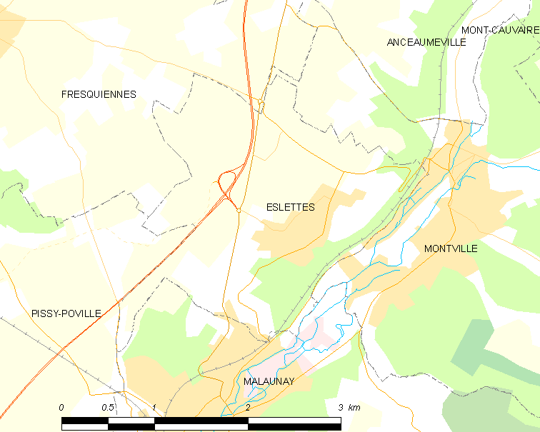 Map of French municipality Eslettes